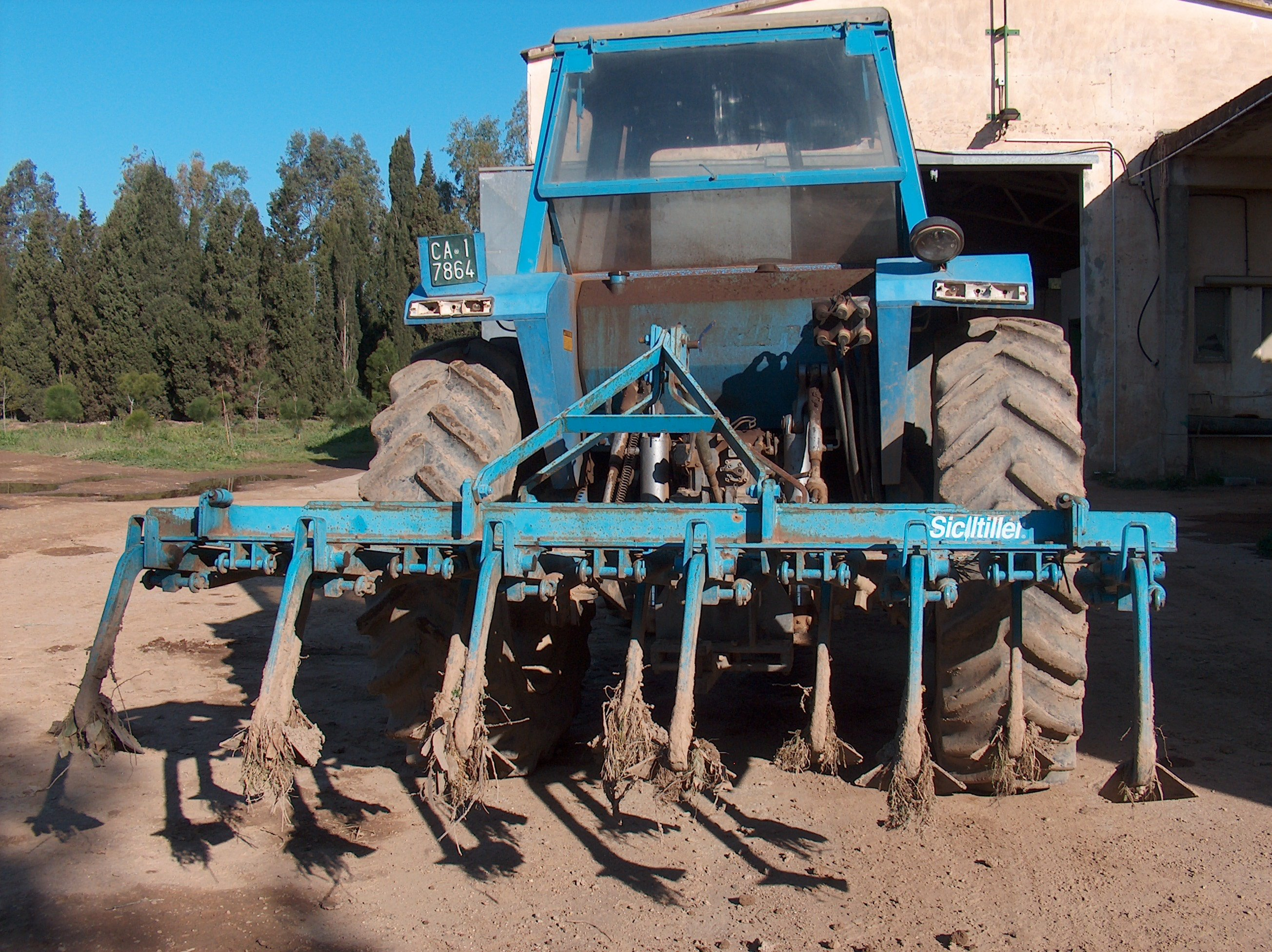 Cultivator, Grubber – Professional Institute of Agriculture and Environment "Cettolini" of Cagliari (Sardinia, Italy) – Associated School of Villacidro (Sardinia, Italy)